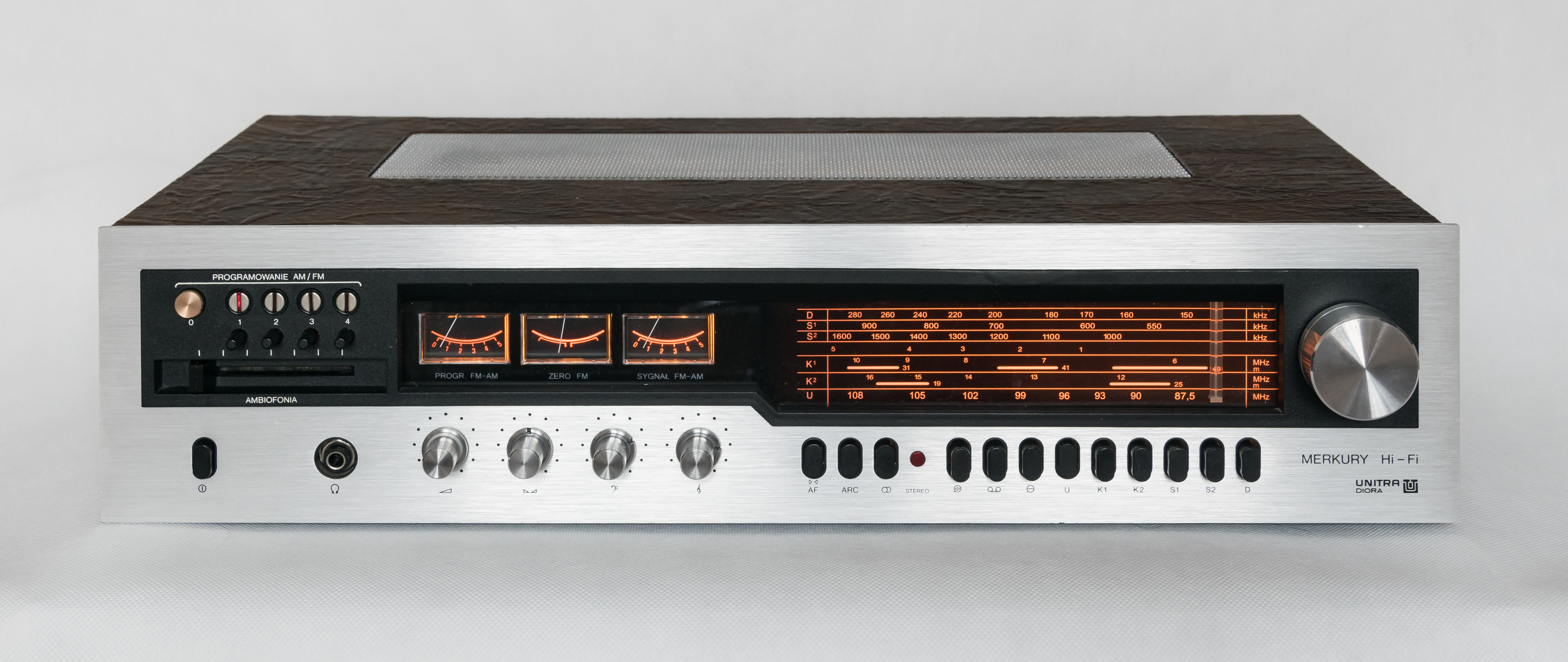 The Unitra-Diora Merkury DSH-303 hi-fi receiver was introduced in 1979. The output stage was built around GML025 or STK077 hybrid ICs, thus power output was modest at 20W per channel.